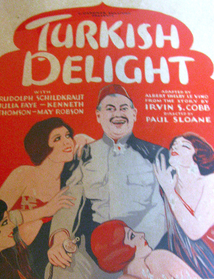 Poster for the 1927 film Turkish Delight. Because the poster is shown framed, it can't be examined thoroughly for possible copyright marks. A renewal search was done in both film and artwork for the years 1954 and 1955. There were no listings in either category for DeMille, Producers' Distributing Corporation or C. Gardner Sullivan. There's no evidence of current copyright for the poster.